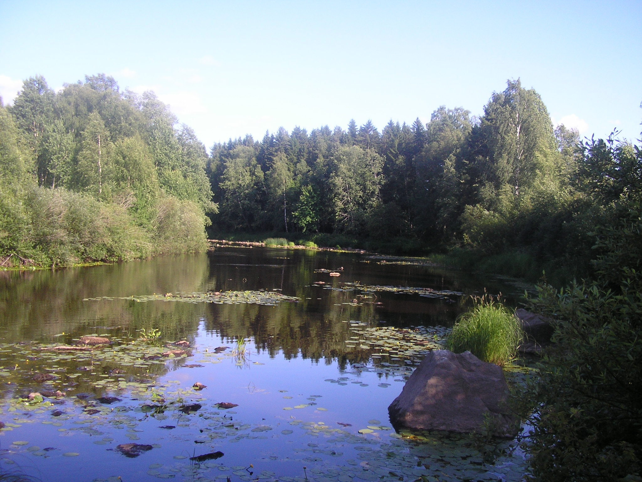 River Lapuanjoki (Lappo å in Swedish) in Nykarleby.